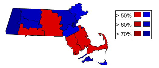 MA Senate special election, 2013